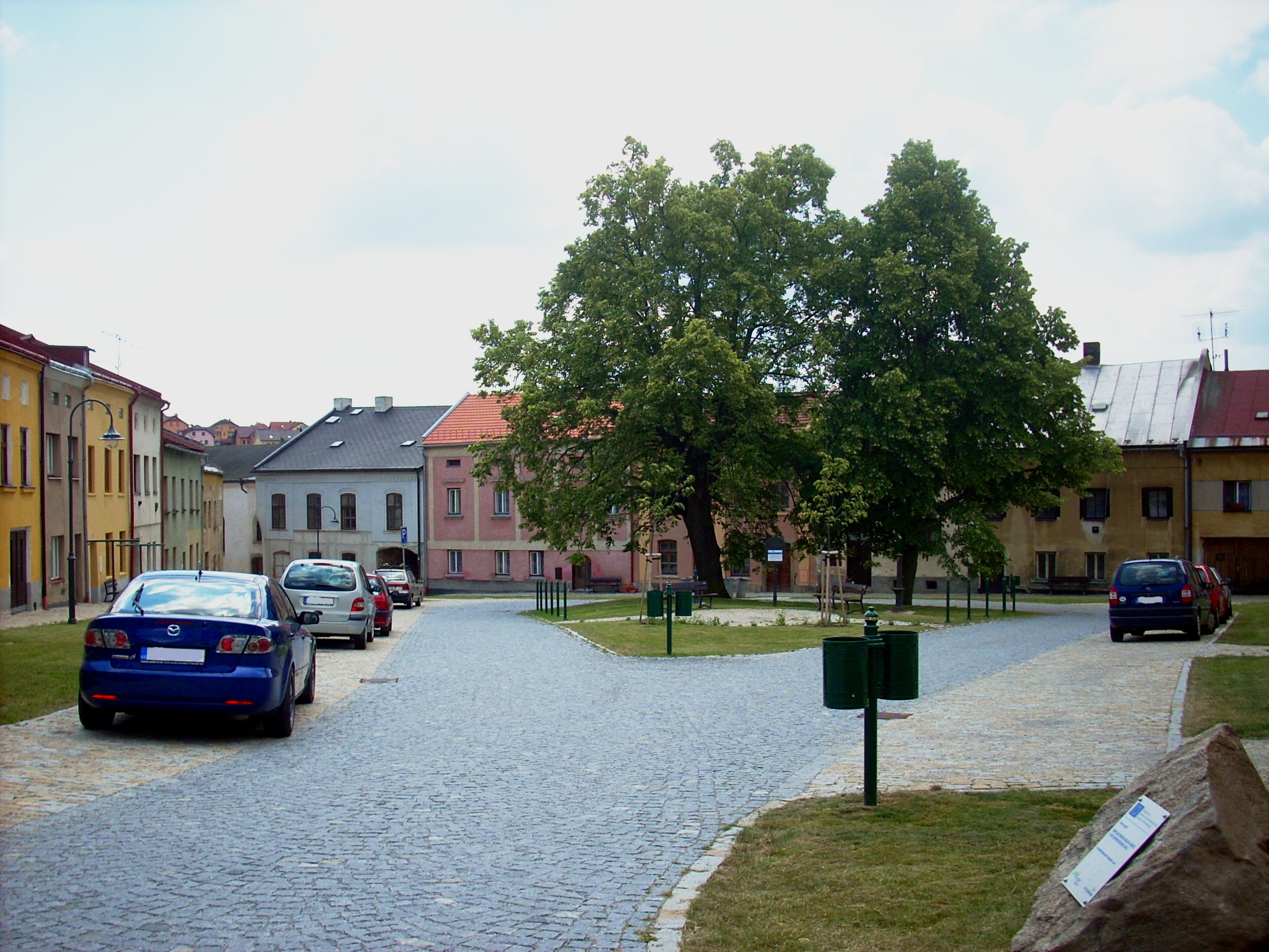 Polná - Charles square